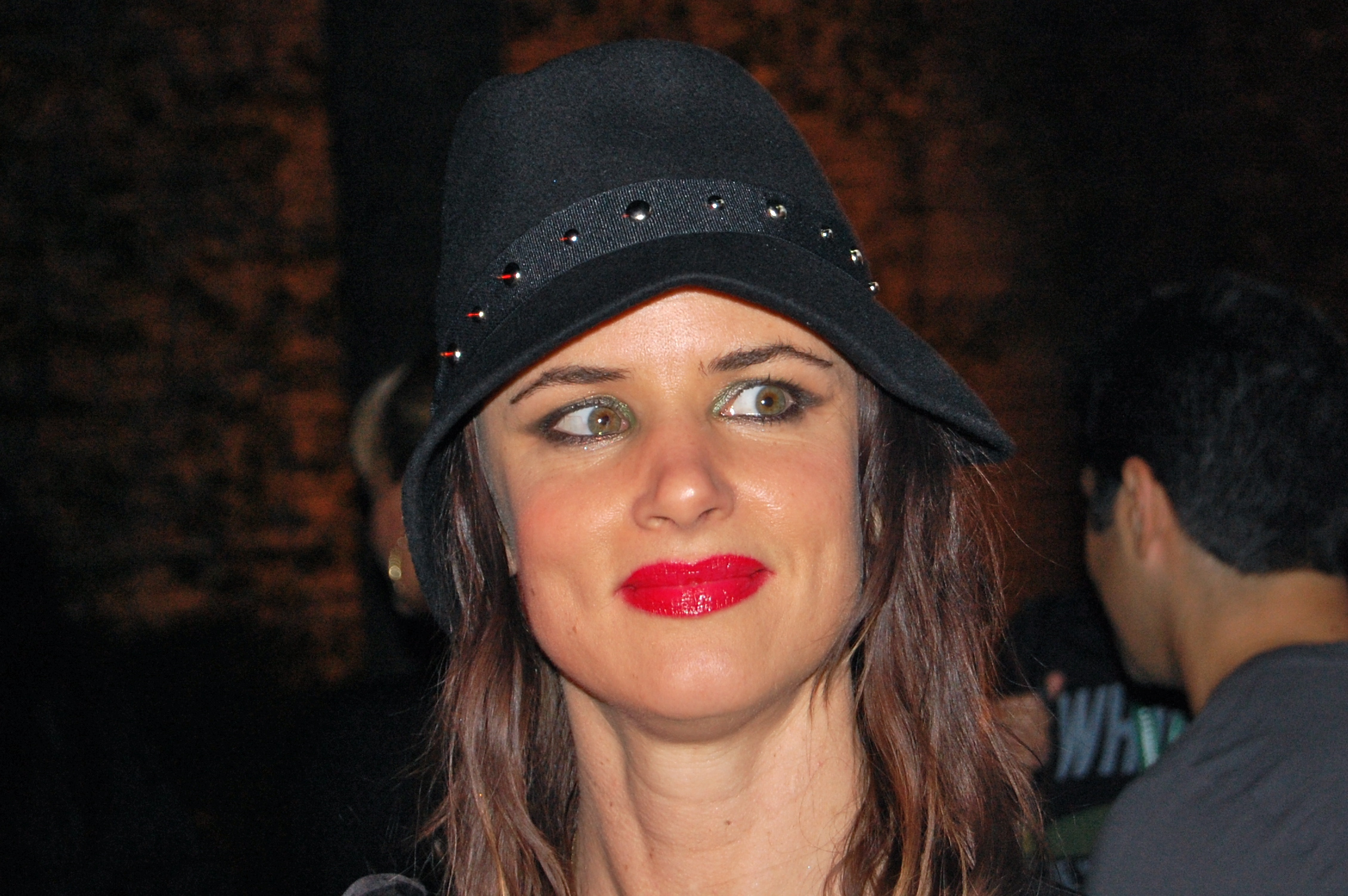 Whip It premiere - Ryerson Theatre - September 13, 2009